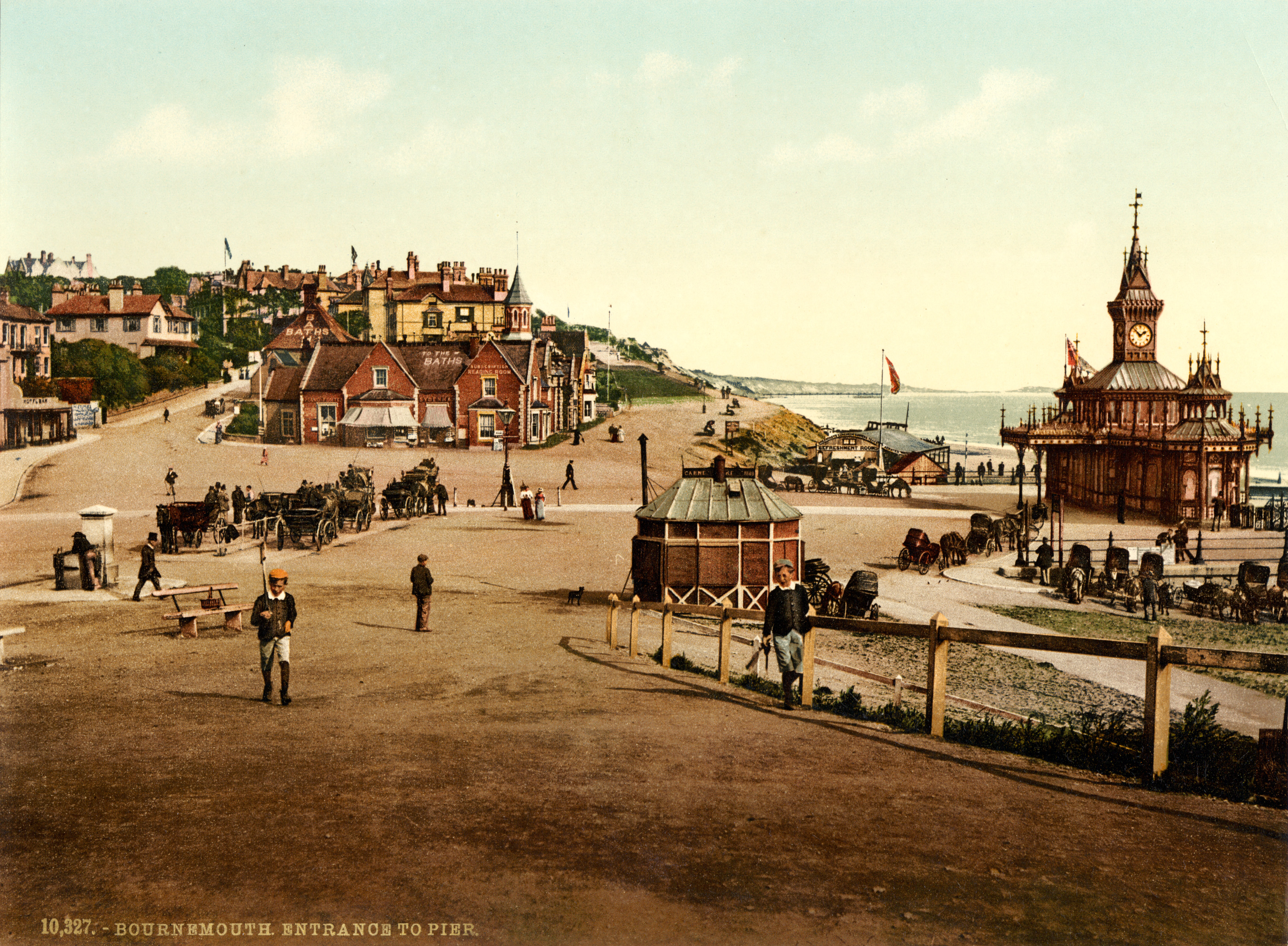 Entrance to the pier, Bournemouth, England. 1 photomechanical print : photochrom, color.